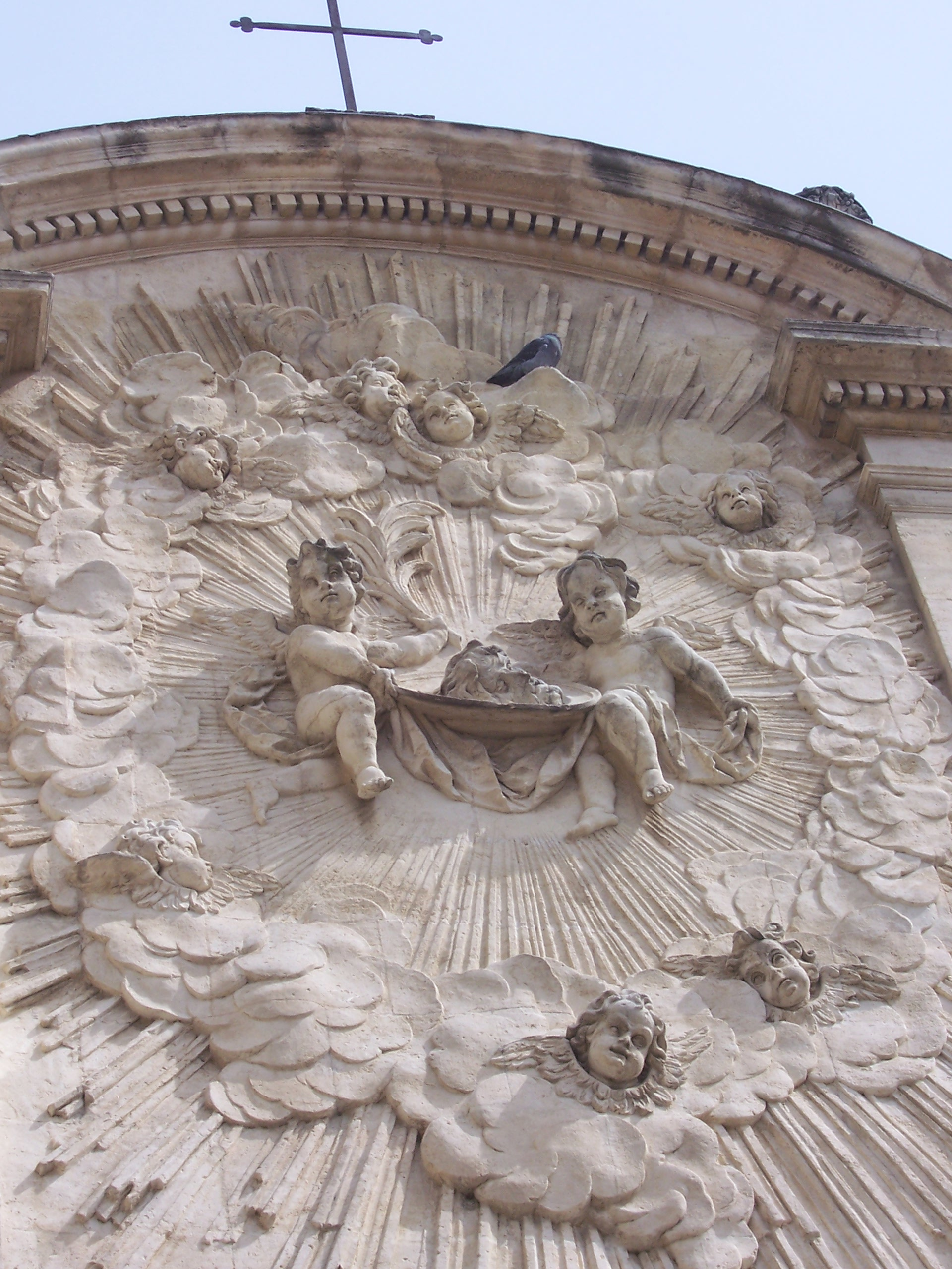 Saint John the Baptist